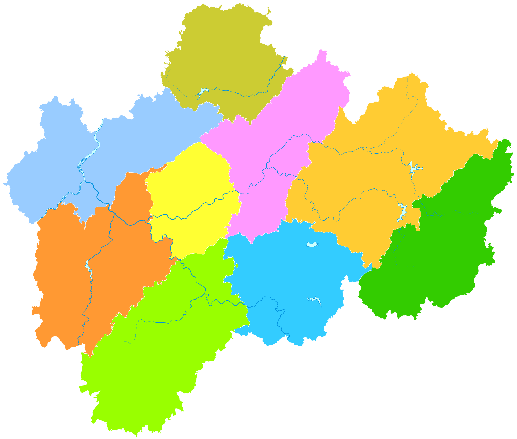 administrative divisions of Jinhua City, Zhejiang, China